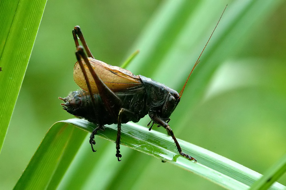 Zeuneriana marmorata, male, first finding in Slovenia, Ljubljansko barje